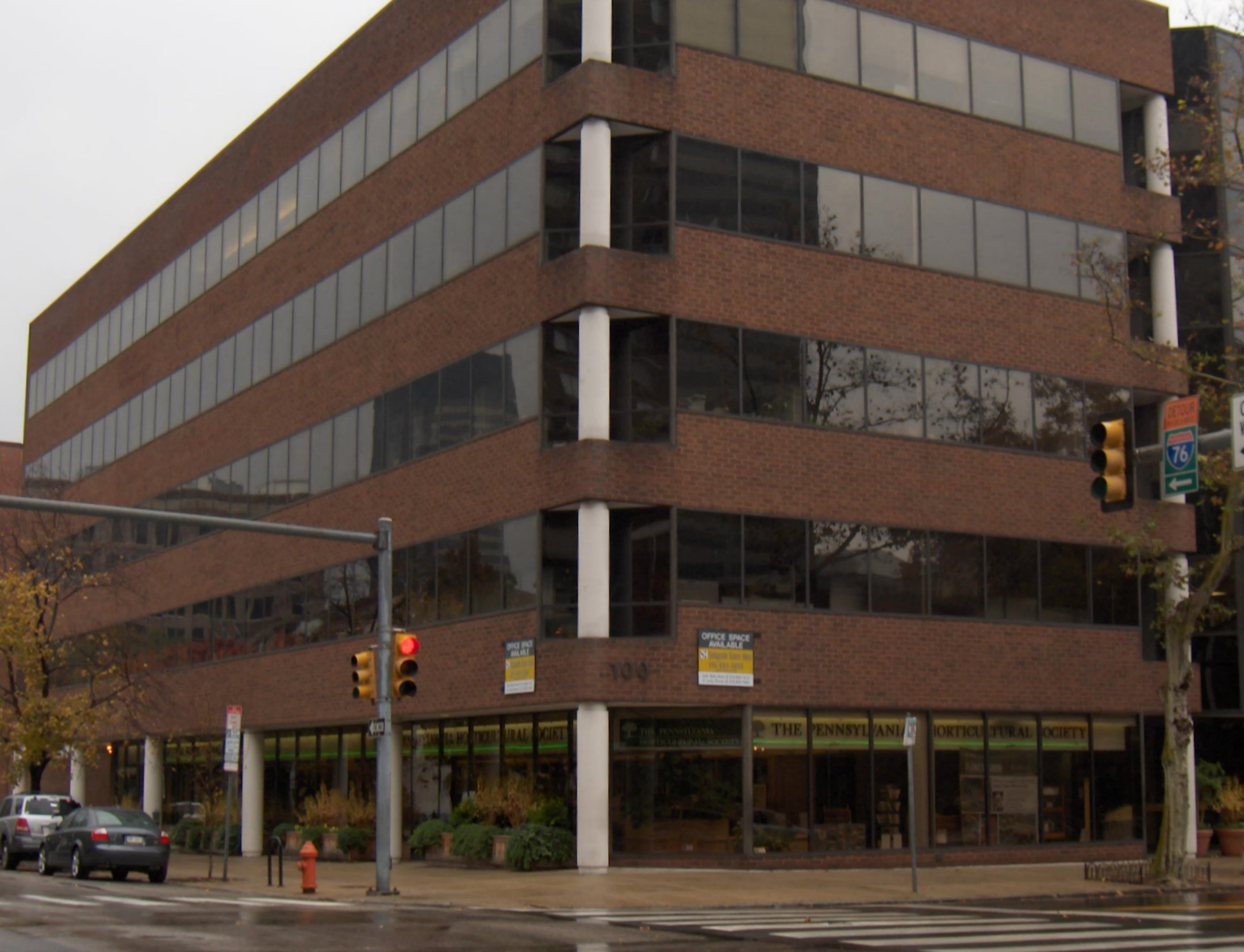 Pennsylvania Horticultural Society, at 100 North 20th Street, Philadelphia, PA 19103, with its library on the ground floor.